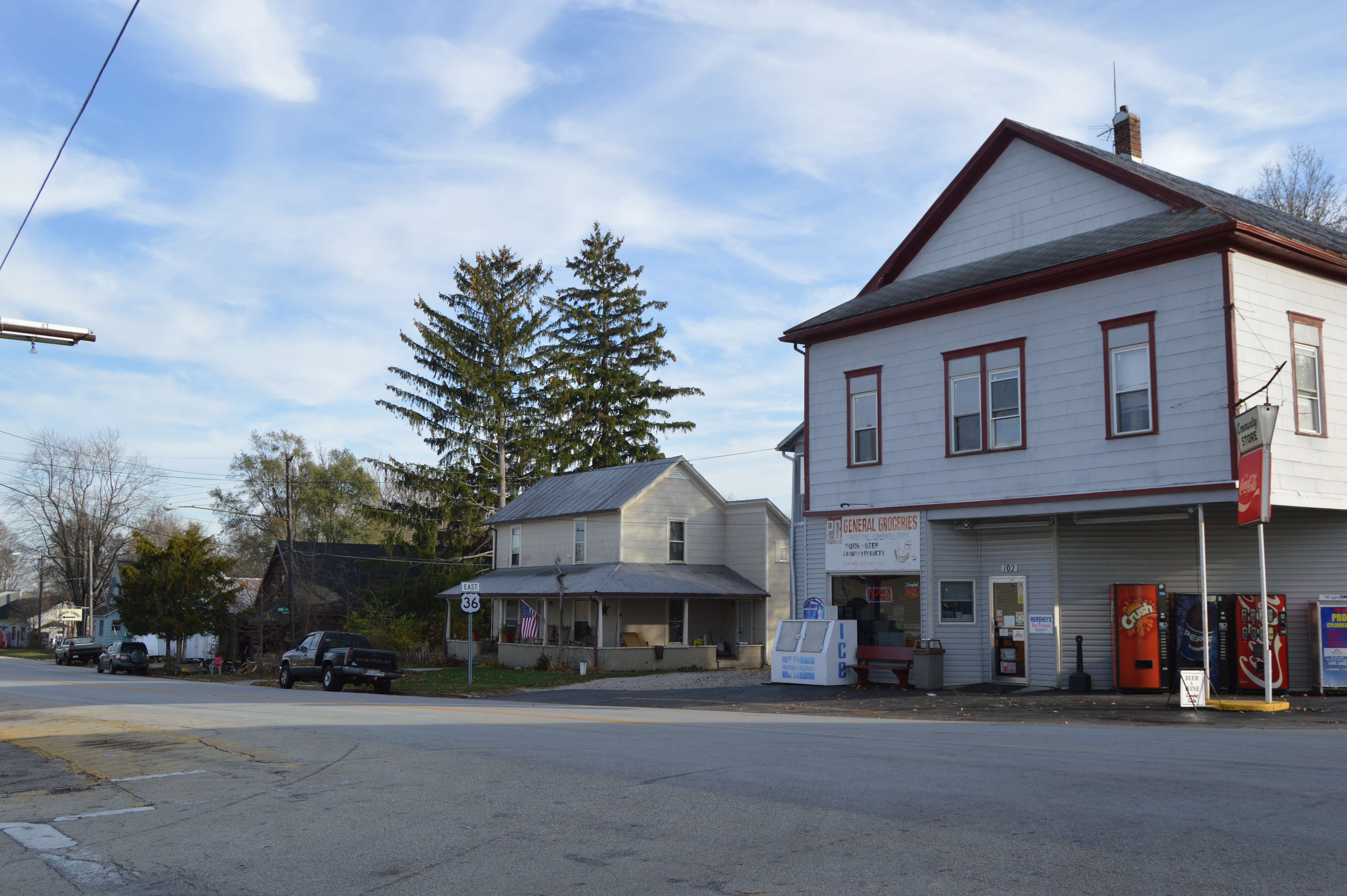 Buildings on the southern side of Cross Street (U.S. Route 36) east of the Main Street intersection in Palestine, Ohio, United States.